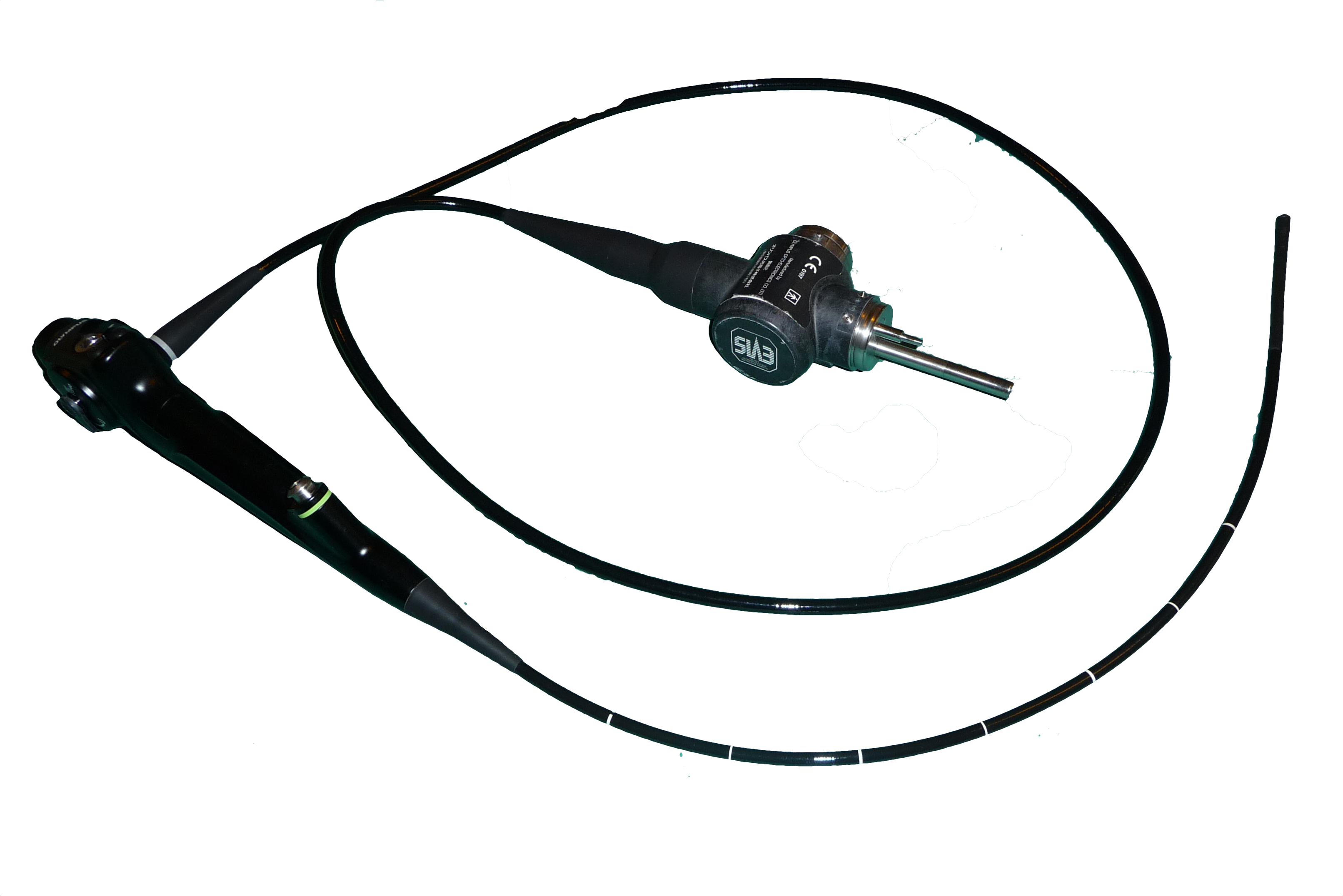 Bronchoscope, endoscope